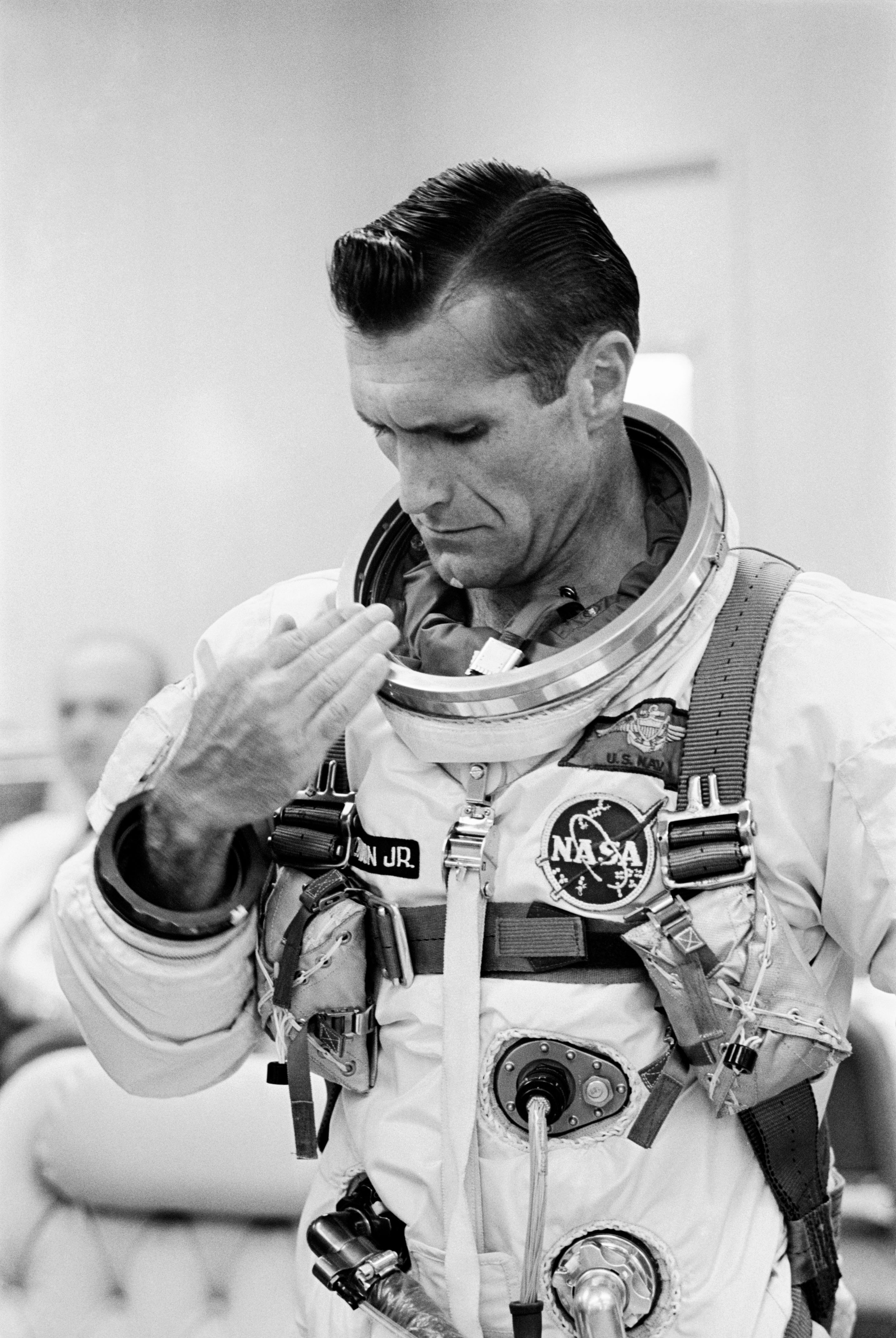 NASA astronaut Richard F. Gordon, Jr., while suiting up prior to the Gemini 11 mission in September 1966. NASA photo S66-50719 in public domain.